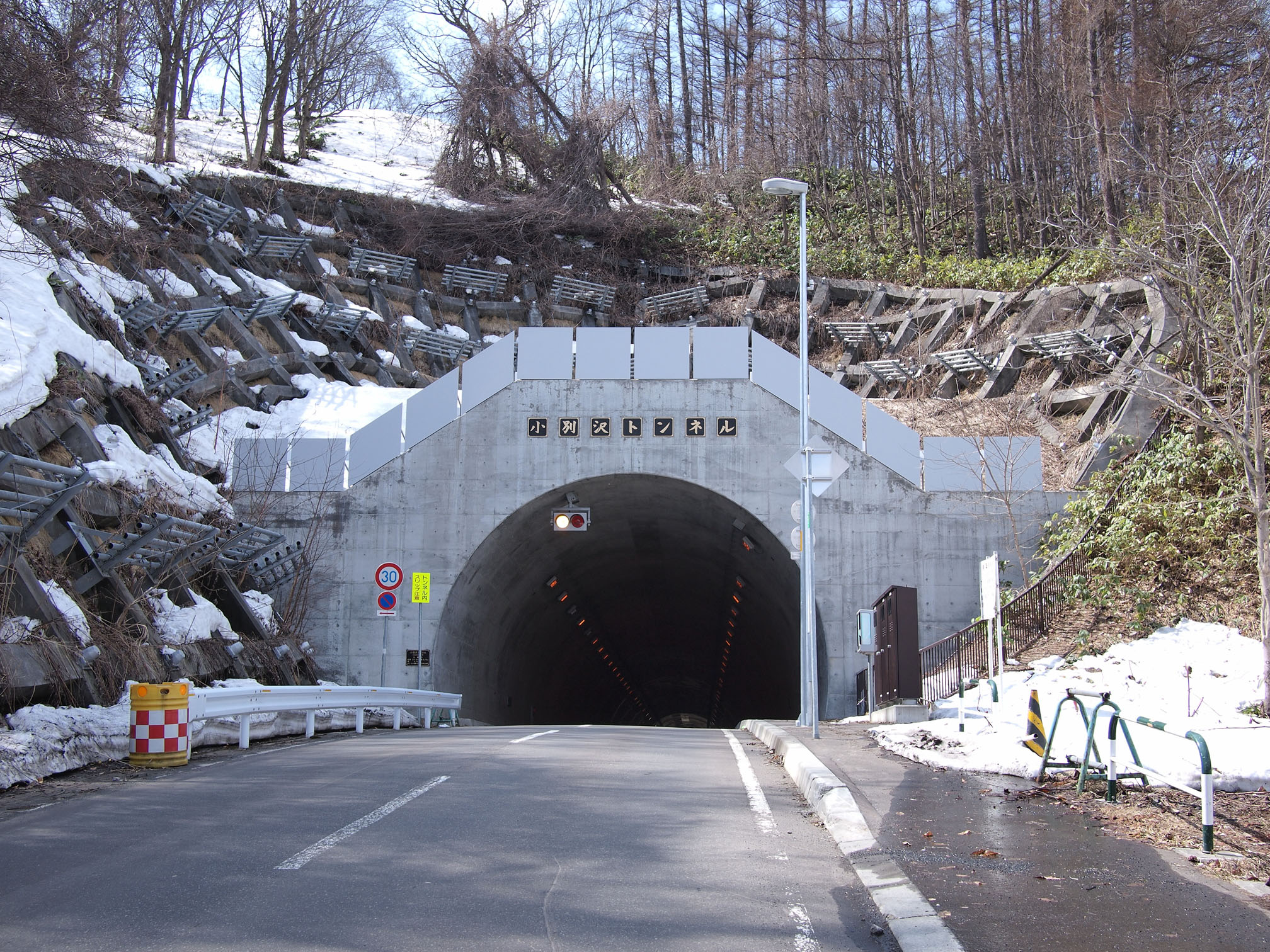 Kobetsusawa Tunnel, Sapporo, Hokkaido, Japan